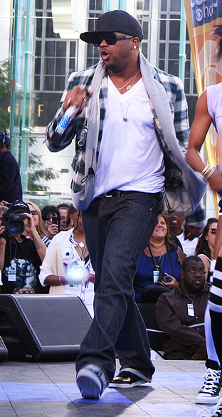 The-Dream performing on September 10, 2008 in Lenox Hill, New York